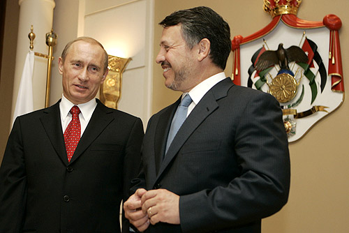 AMMAN. With the King of Jordan, Abdullah II.